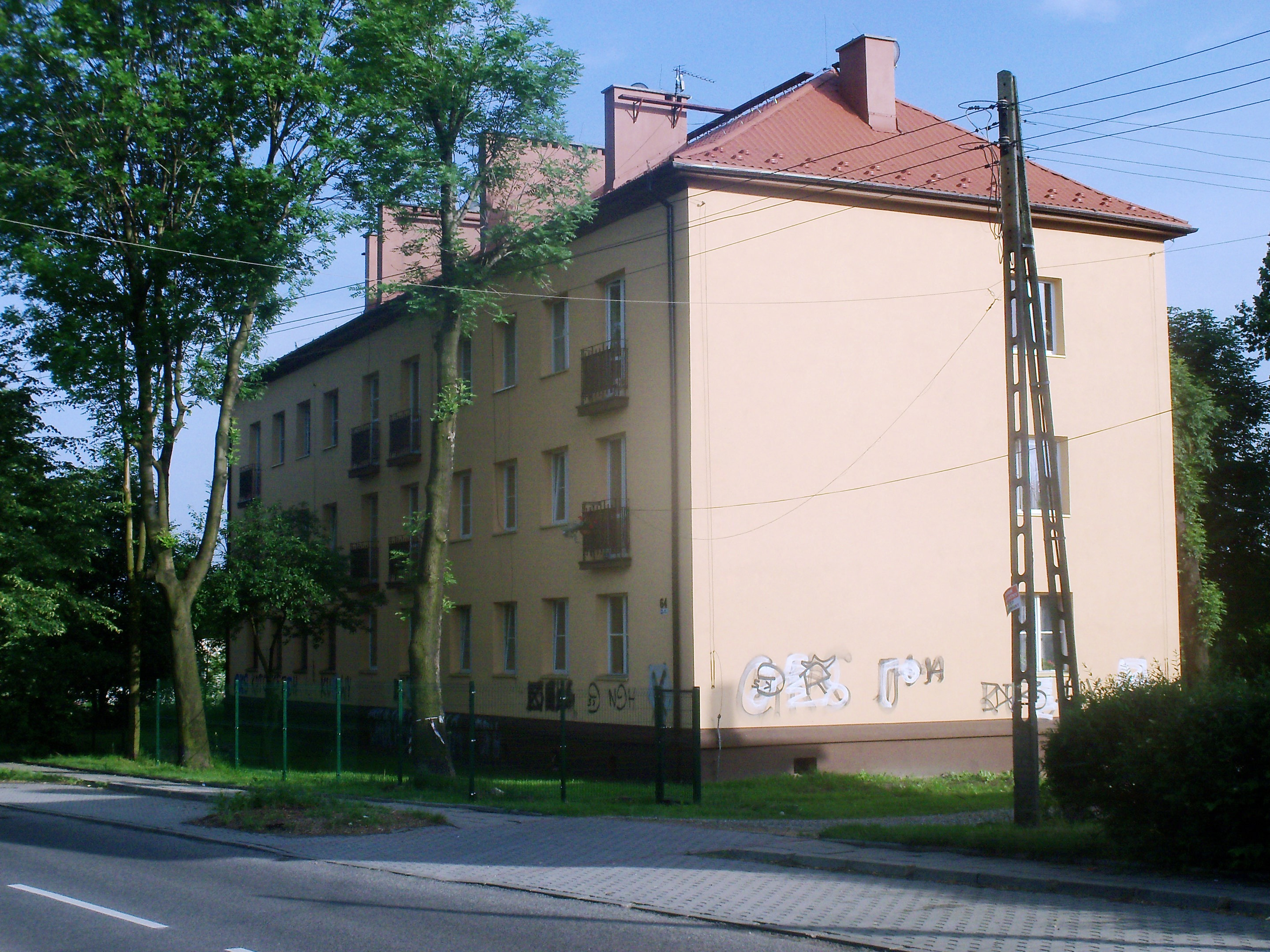 Oswobodzenia Street in Katowice